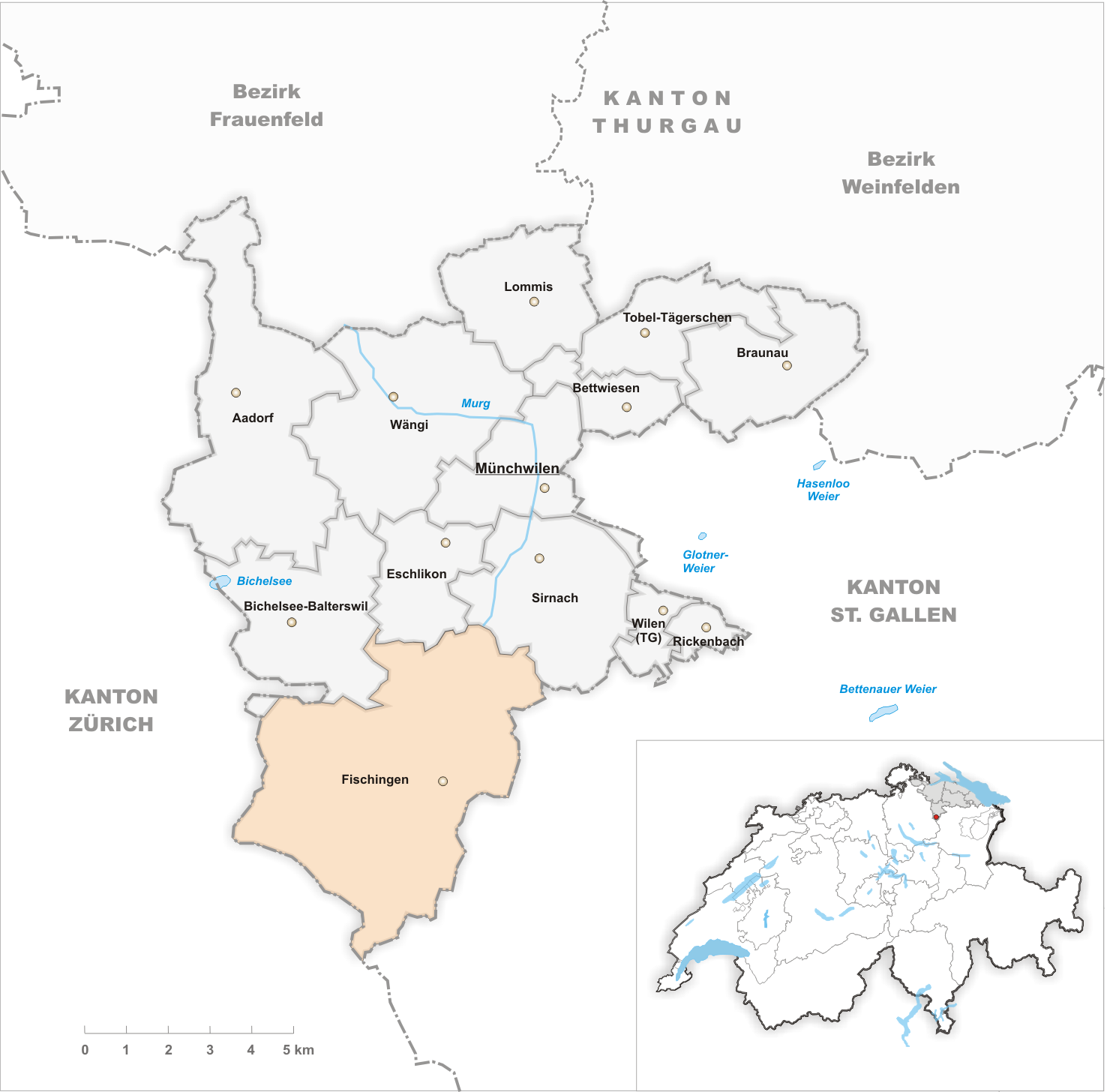 Municipality Fischingen